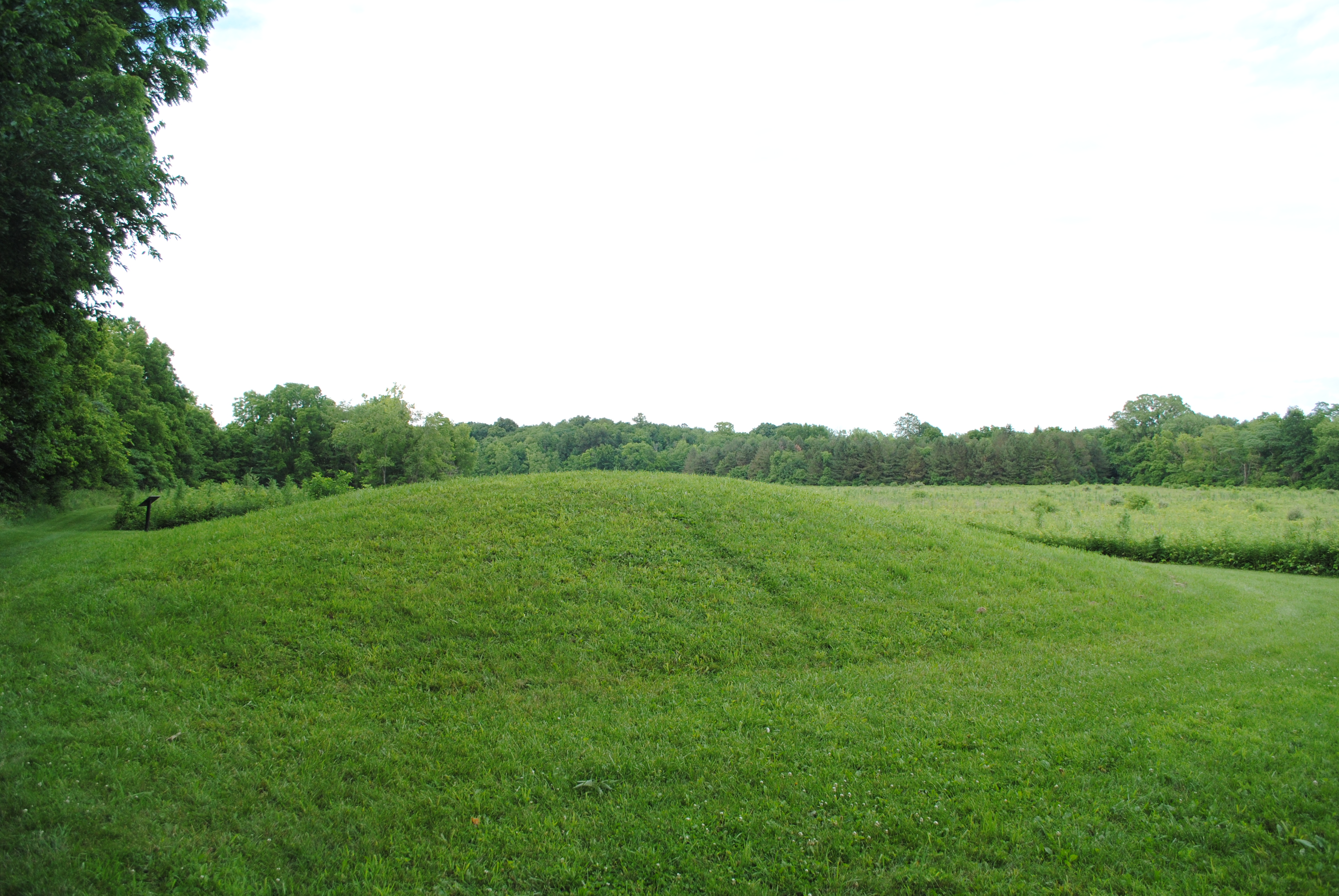 Located in Darby Batelle Park. This is actually the John Galbreth Mound.